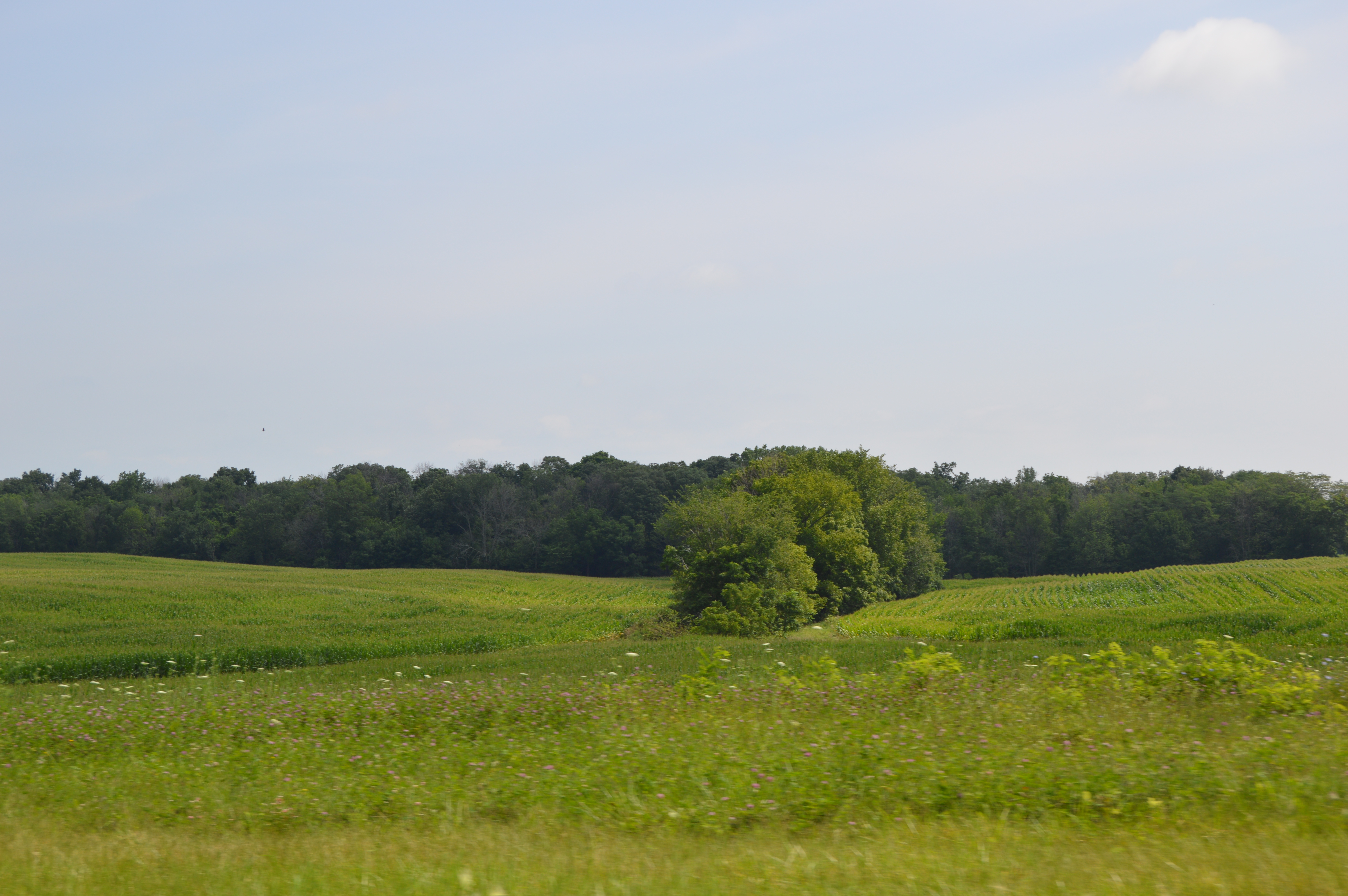 Fields in extreme northern Pleasant Township, Clark County, Ohio, United States, looking northeast from State Route 56 just north of the Knoxville Road intersection.